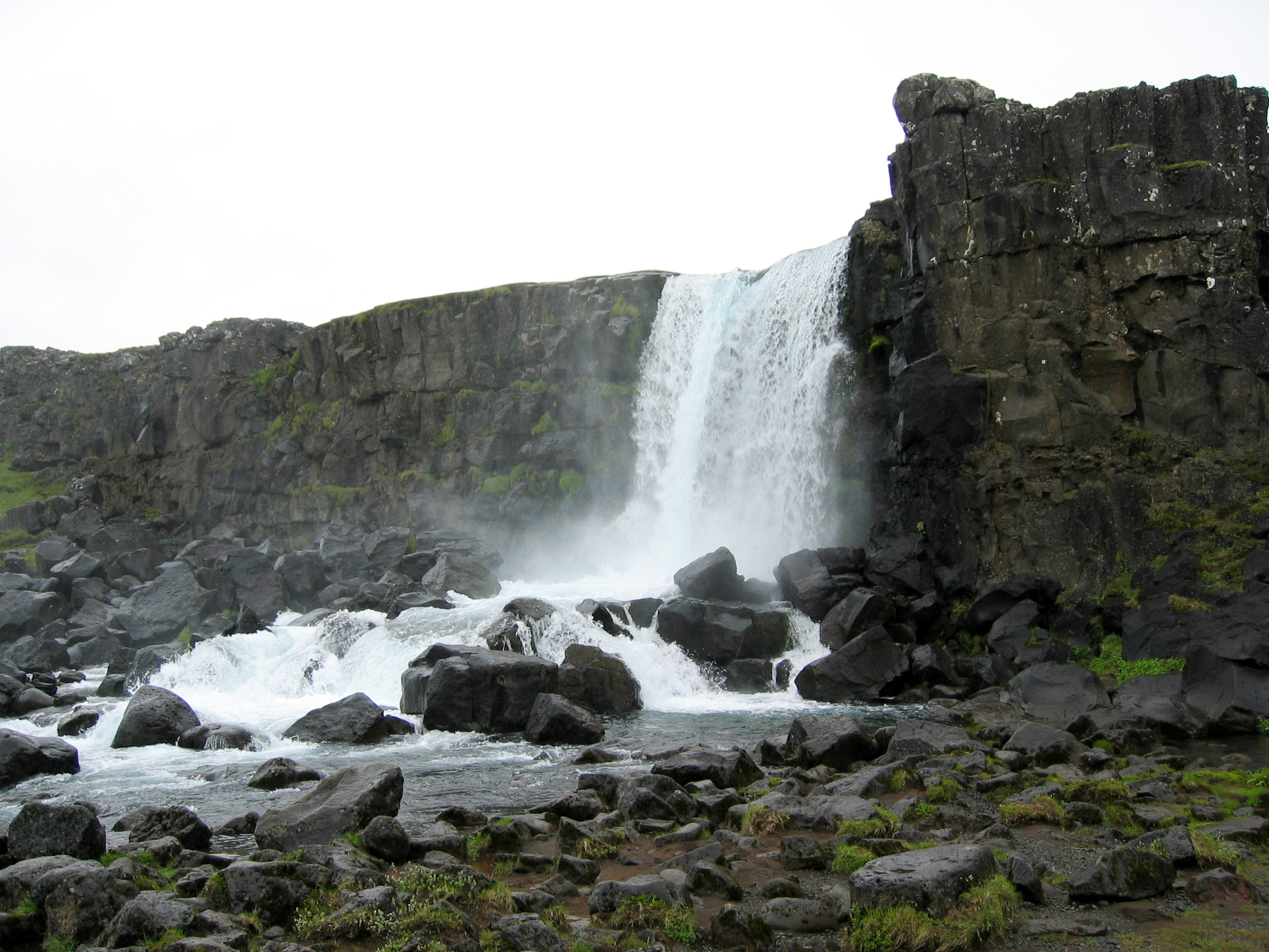 Öxarárfoss in June